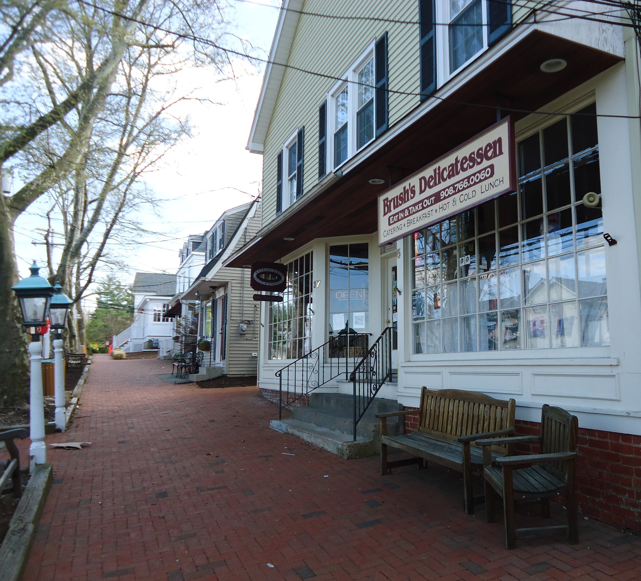 Sidewalk scene in Basking Ridge, New Jersey.